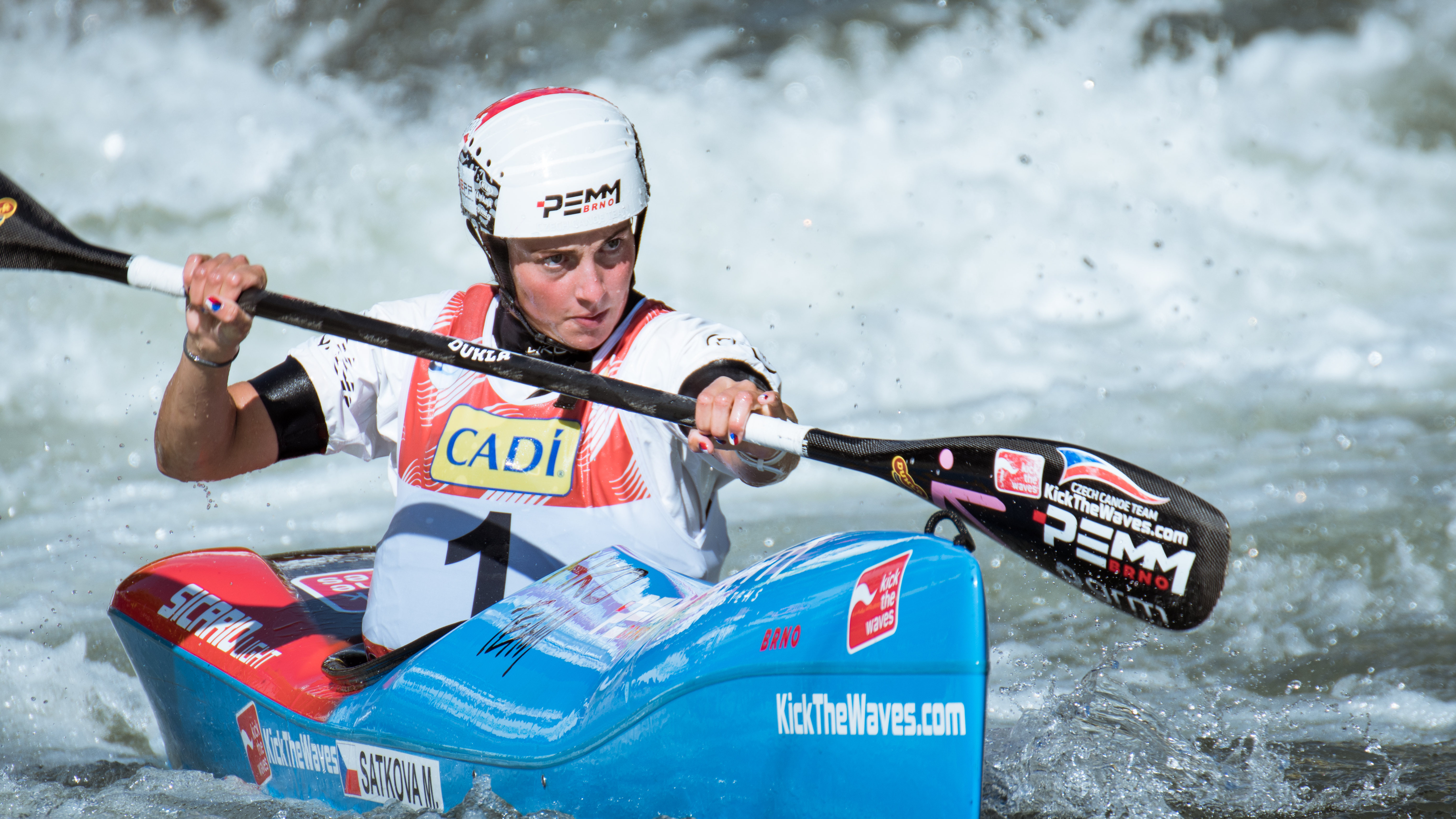 Martina Satková during the 2019 Canoe Wildwater World Championships in La Seu d'Urgell, Spain.